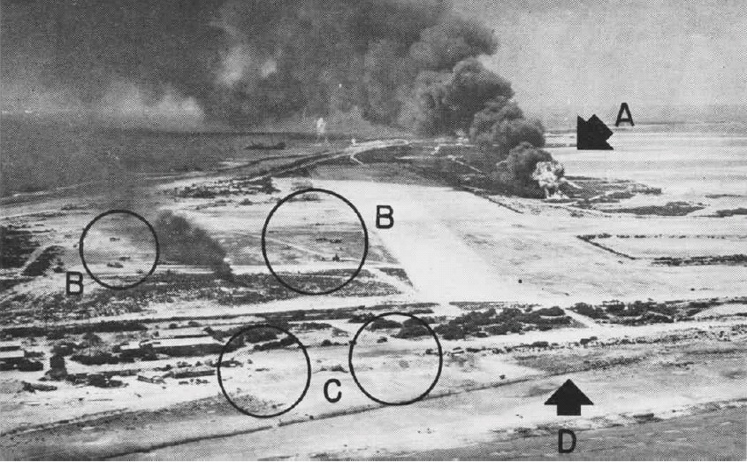 Aerial photograph of the attack on Wake Island by aircraft from Carrier Air Group Five (CVG-5) from the U.S. aircraft carrier USS Yorktown (CV-10) on 5 October 1943. Unbeknownst to the attackers this led to a cruel war crime. Two days later, fearing an imminent invasion, Rear Admiral Shigematsu Sakaibara ordered the murder of the 98 captured American civilian workers remaining on the island since its capture in 1941, kept to perform forced labour for the Japanese. They were taken to the northern end of the island, blindfolded and machine-gunned. After the war, Sakaibara and his subordinate, Lieutenant-Commander Tachibana, were sentenced to death for this and other war crimes. Several Japanese officers in American custody had committed suicide over the incident, leaving written statements that incriminated Sakaibara. Tachibana’s sentence was later commuted to life in prison. Legend: A: burning fuel dumps B: Mitsubishi A6M2 and A6M3 Zero fighters C: gun positions D: trenches and barbed wire positions Above the circle marked "B" is the wreck of Japanese transport ship "Suwa Maru", torpedoed March 28th by US submarine Tunny (SS-282) and beached to prevent her from sinking. The ship was torpedoed again a week later and became a total loss.